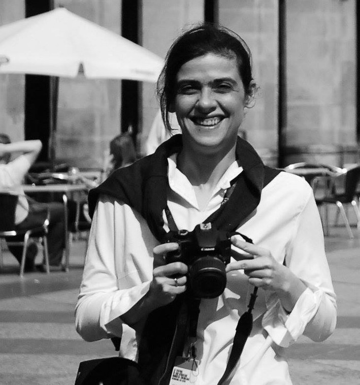 Rusudan Glurjidze in the San Sebastian IFF